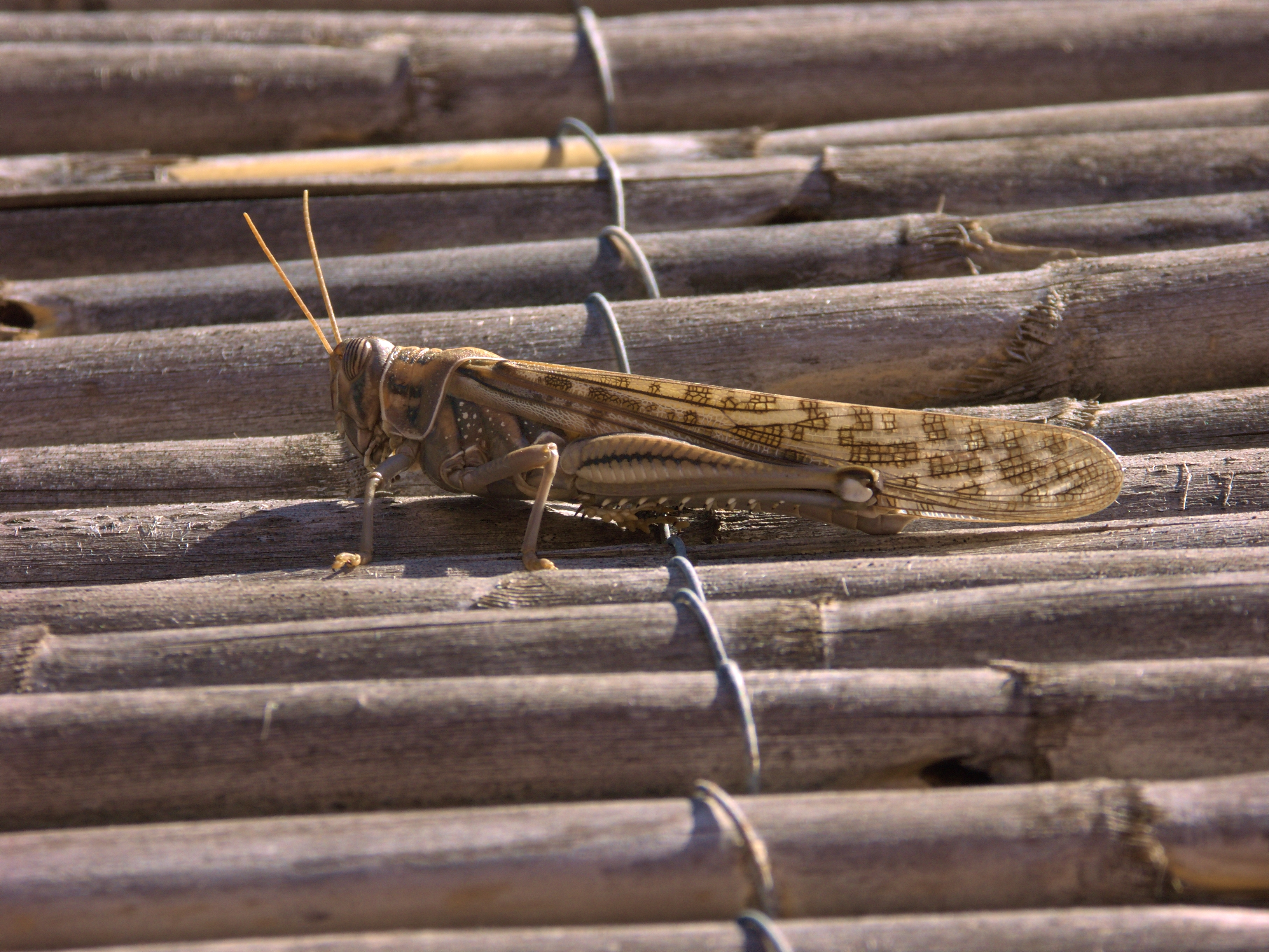 Desert locust